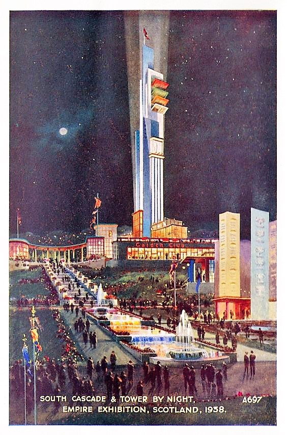 Public postcard 1938 Empire Exhibition in Glasgow